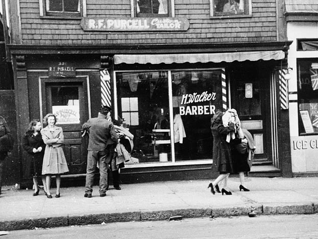 Title / Titre : V-E Day Riots, east side of Gottingen Street between Falkland and Cornwallis Streets Creator(s) / Créateur(s) : Unknown / Inconnu Date(s) : May 8, 1945 / 8 mai 1945 Reference No. / Numéro de référence : MIKAN 3193214, 3624101 Location / Lieu : Halifax, Nova Scotia, Canada / Halifax, Nouvelle-Écosse, Canada Credit / Mention de source : Mayfair Studio. Library and Archives Canada, PA-122582 / Mayfair Studio. Bibliothèque et Archives Canada, PA-122582